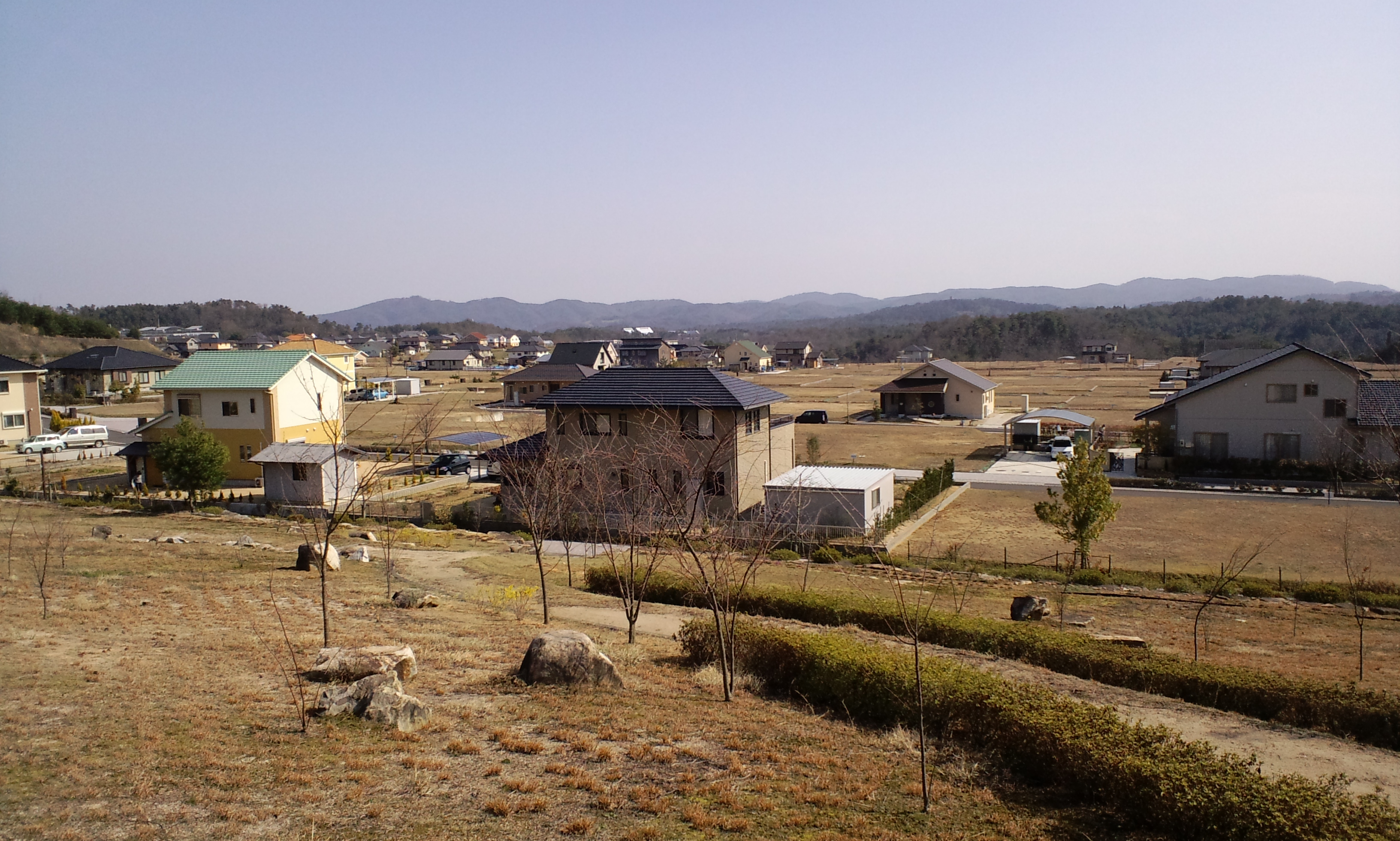 Kogen living district in Kibi plateau city